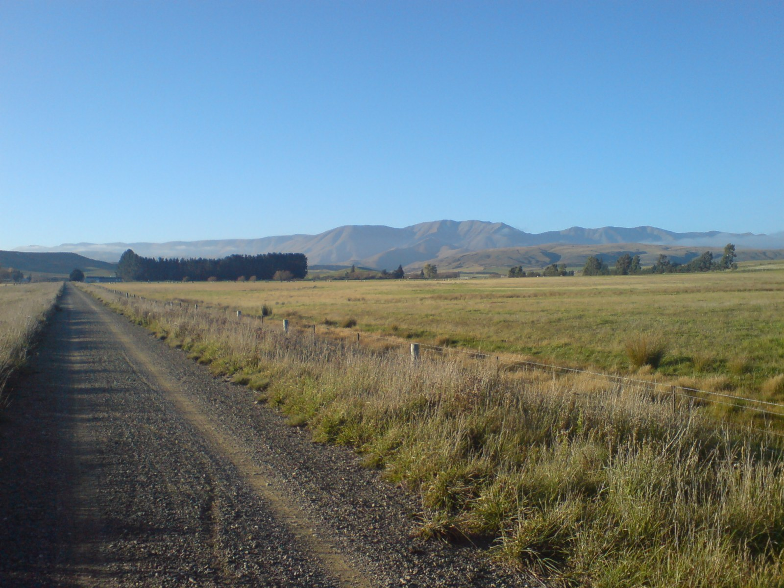 Looking back along the Central Otago Rail Trail.